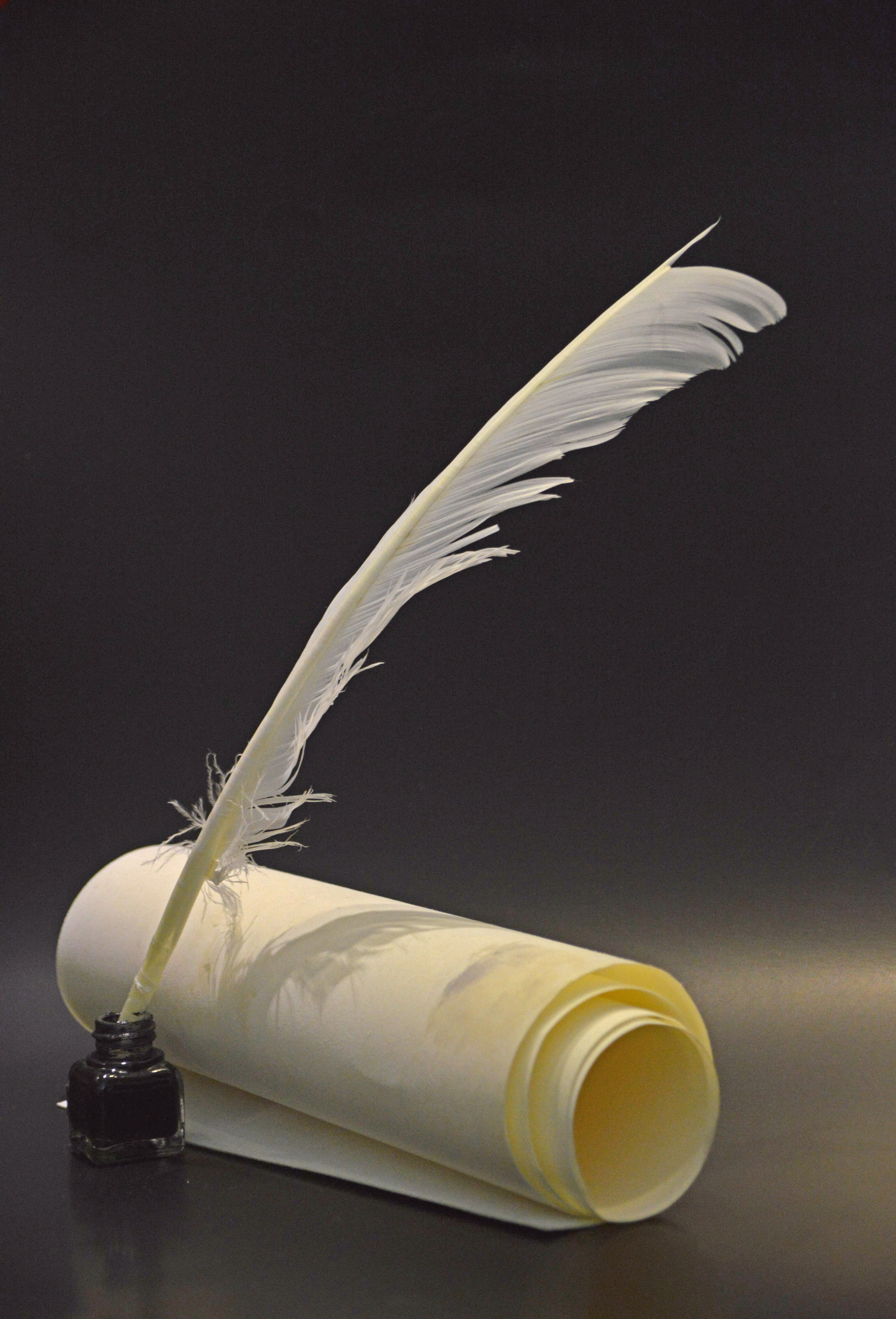 A parchment quill and ink. Klaf, Kulmus & D'yo